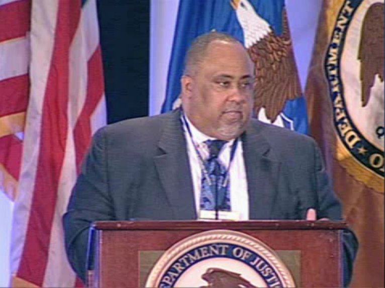 The Importance of Research on Race, Crime and Punishment Lawrence Bobo, W.E.B. DuBois Professor of the Social Sciences, Harvard University NIJ Conference Keynote Address June 2011 (Extracted from the video using GIMP to make a screen print).